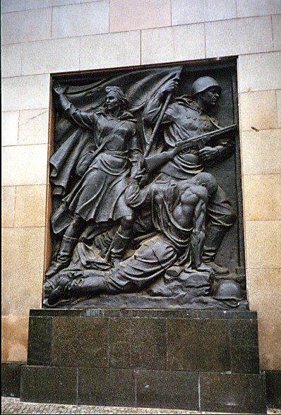 Detail from the entrance of the Soviet War Memorial in Schönholzer Heide, Berlin.